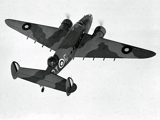 A Royal Canadian Air Force Lockheed Hudson Mk.1 (OY-C) from No. 11 Bombing and Reconnaissance Squadron, based at RCAF Station Dartmouth, Nova Scotia (Canada), between October 1939 and July 1942.